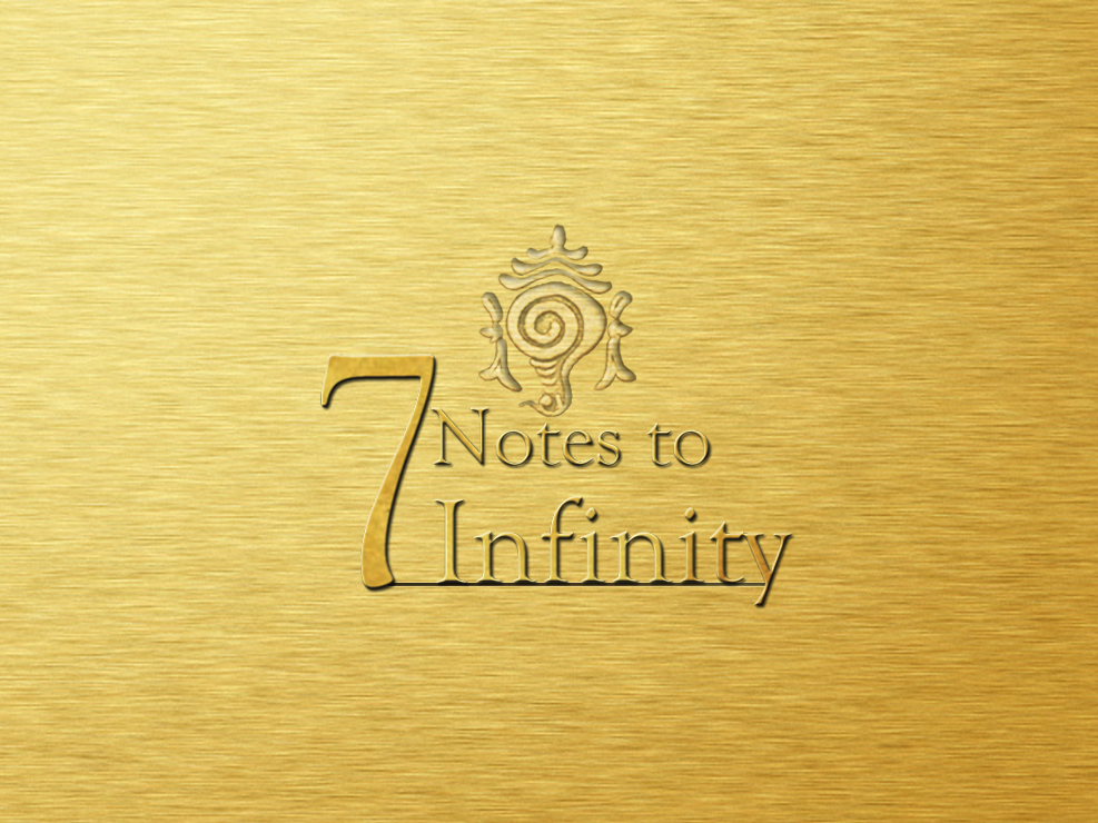 7 notes to Infinity documentary logo.